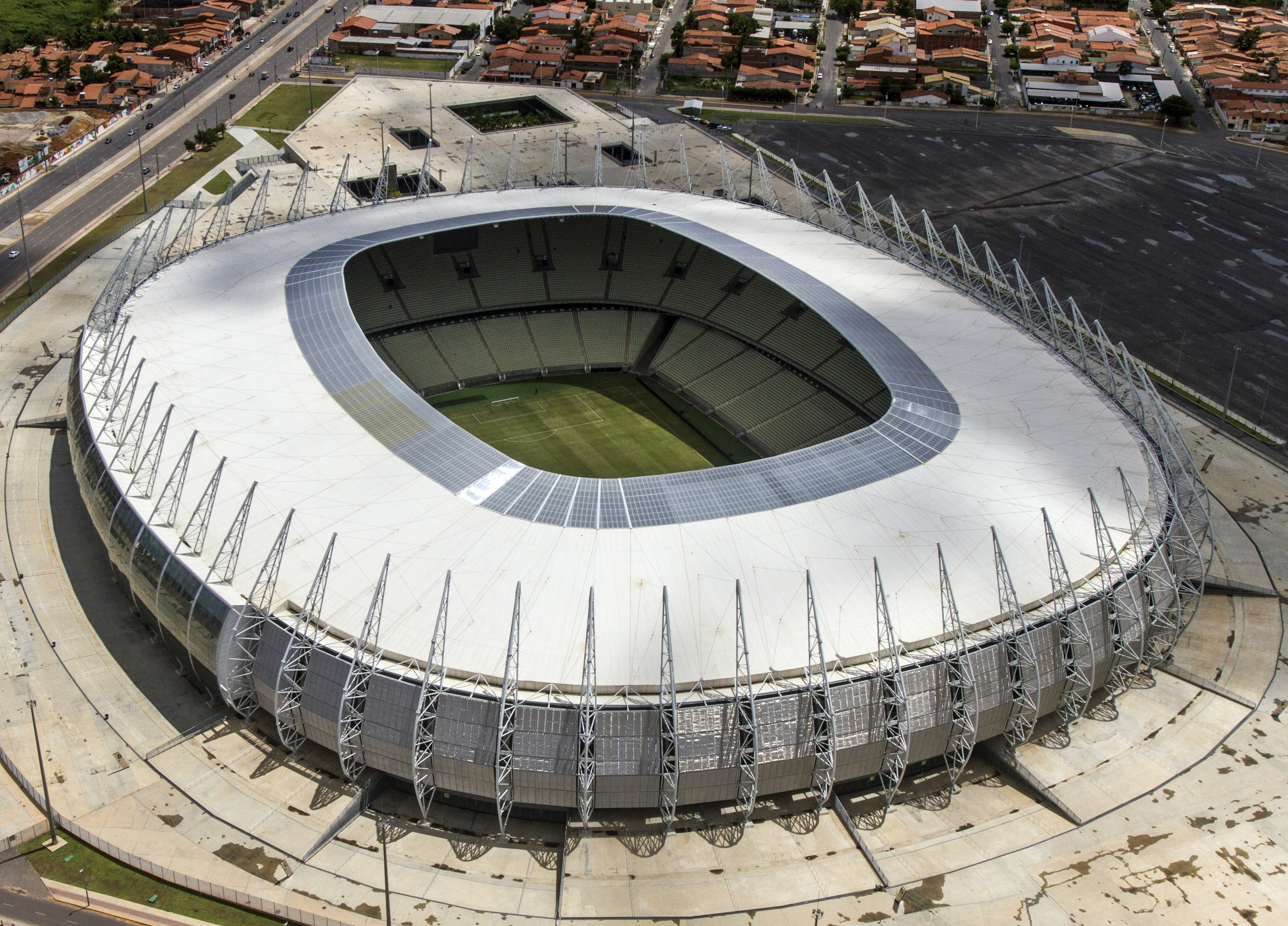 Castelão, Fortaleza, Brasil